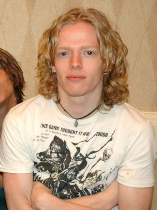 British actor Hugh Mitchell.